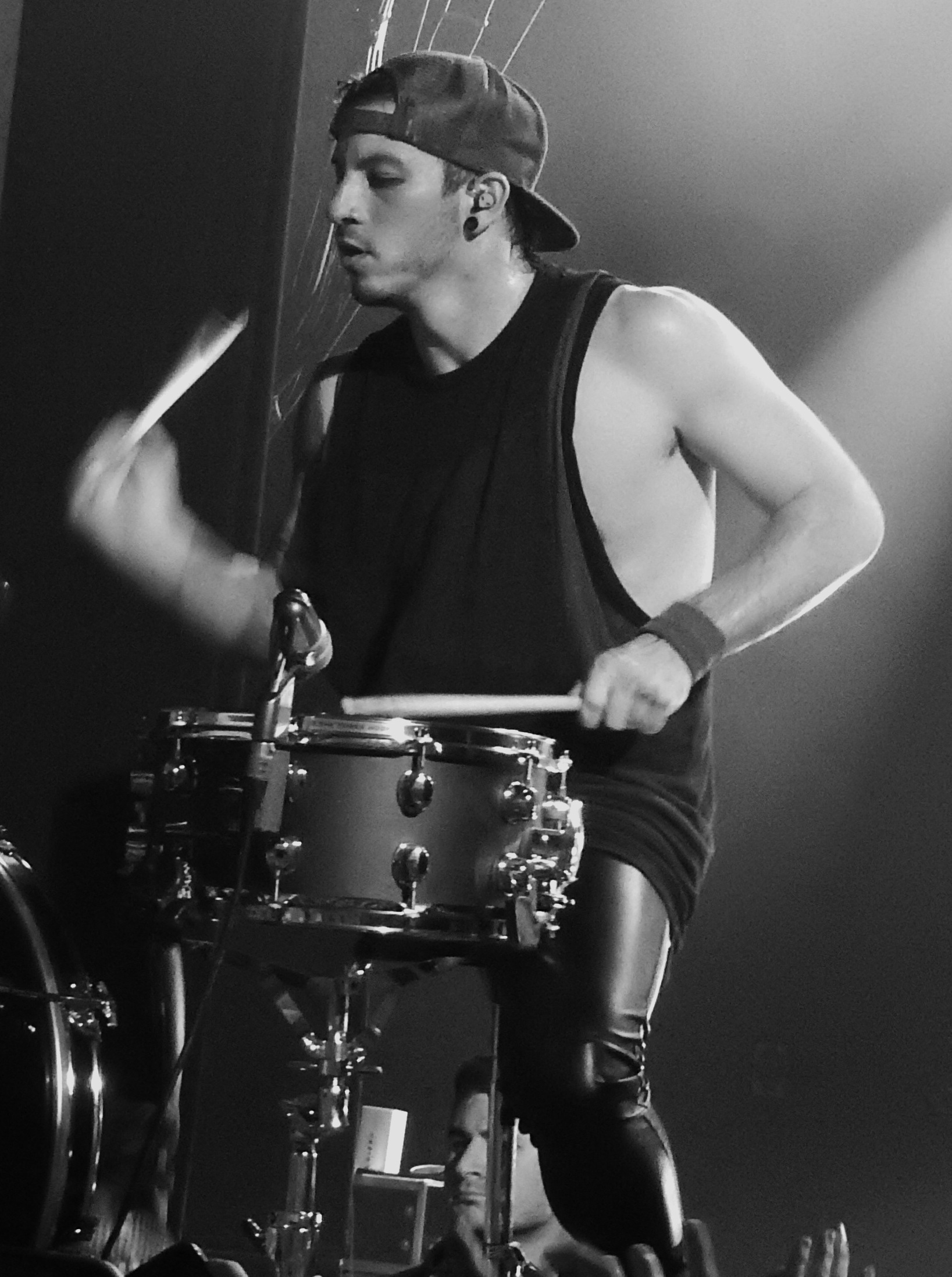 Josh Dun performing at a Twenty One Pilots' concert at Shepherds Bush Empire, London